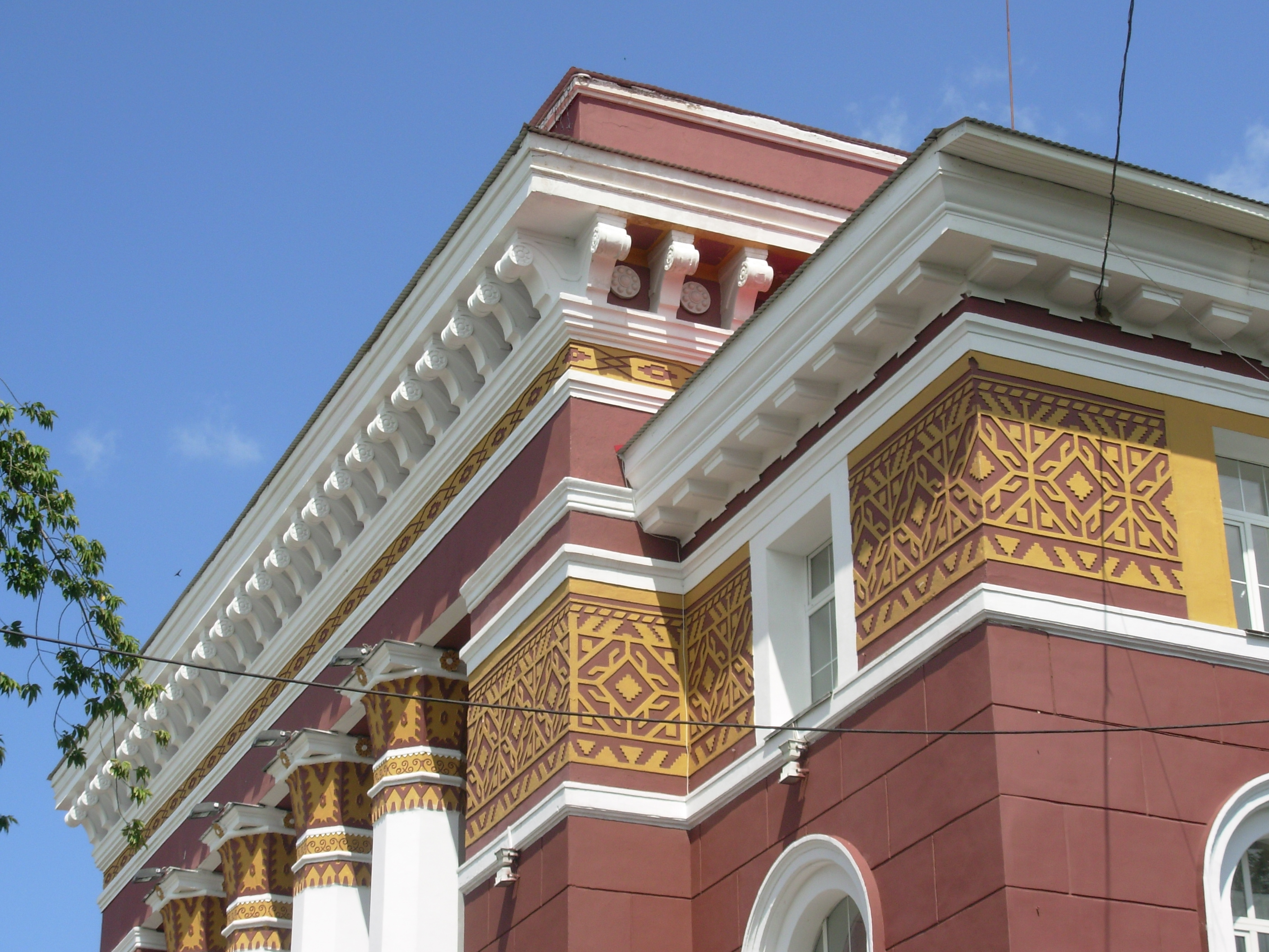 town